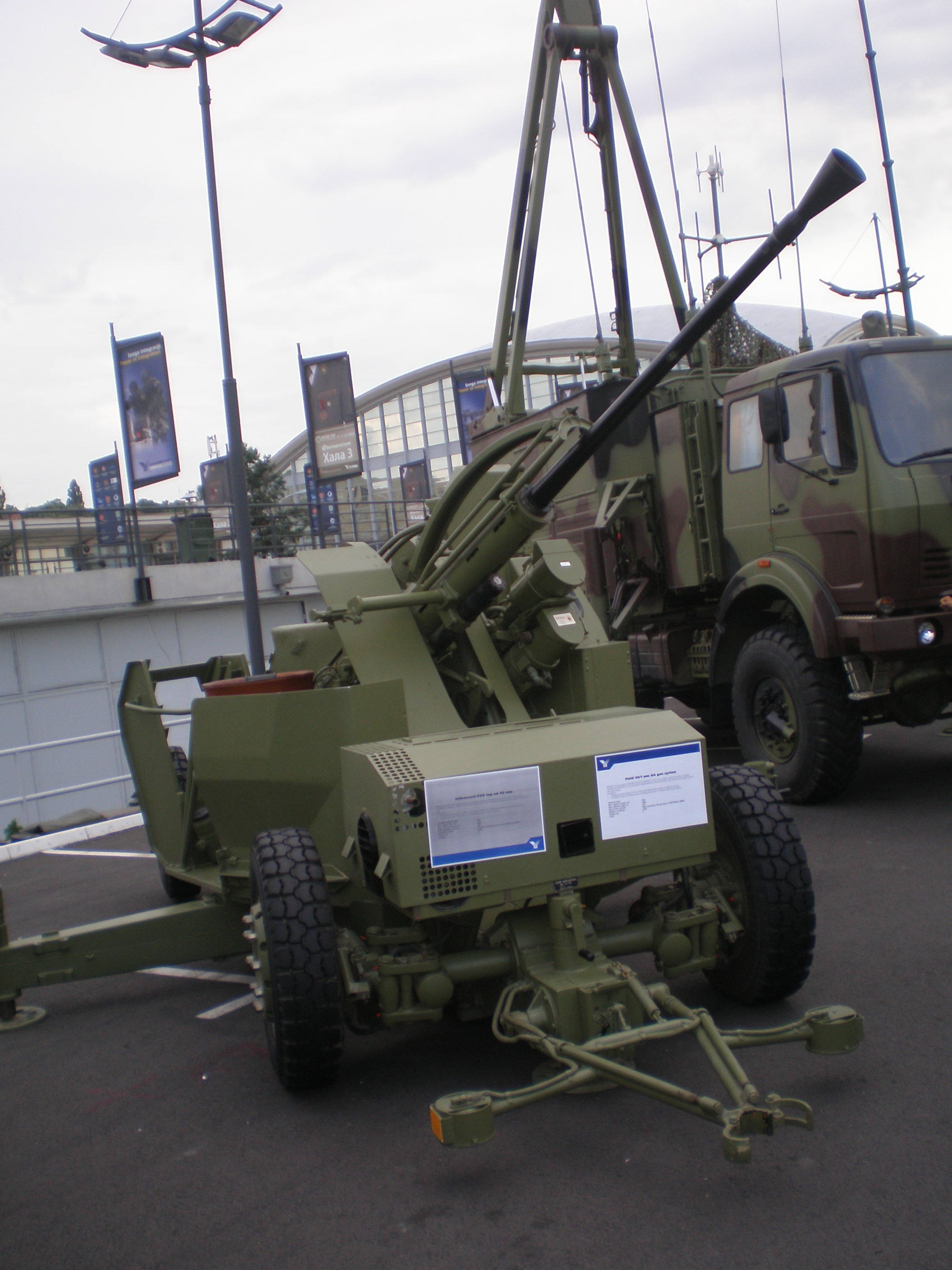 Bofors L/70 40mm anti-aircraft gun on display at "Partner 2009" military fair.